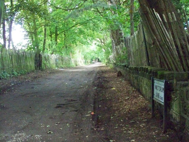 Noctorum Lane at junction of Noctorum Road